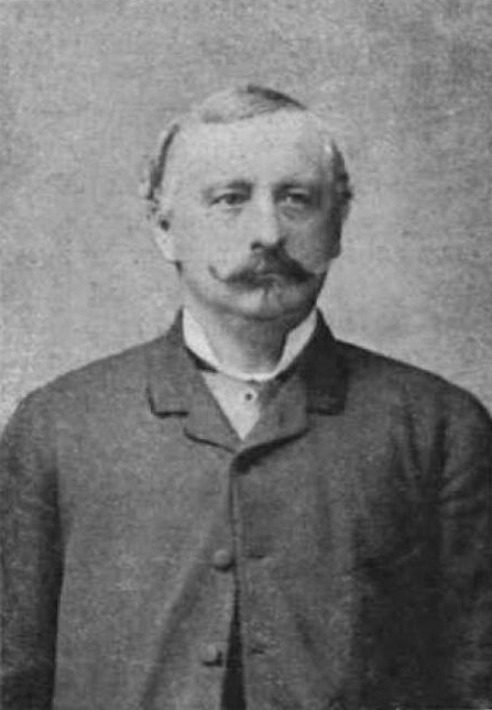 Gábor Bethlen